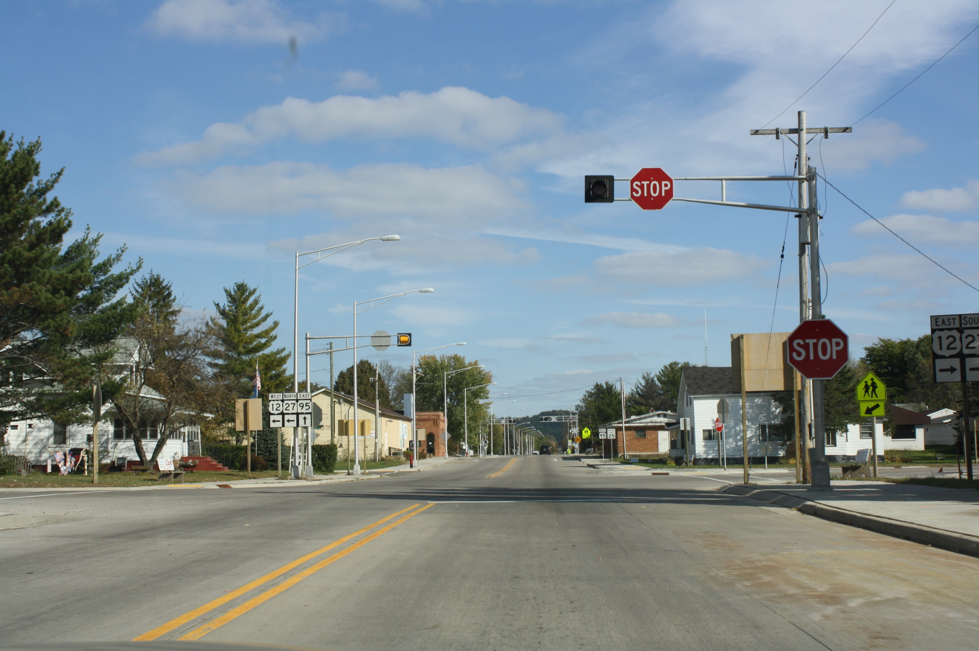 In Merrillan, Wisconsin, Wisconsin Highway 95 at its intersection with Wisconsin Highway 27 / U.S. Route 12.